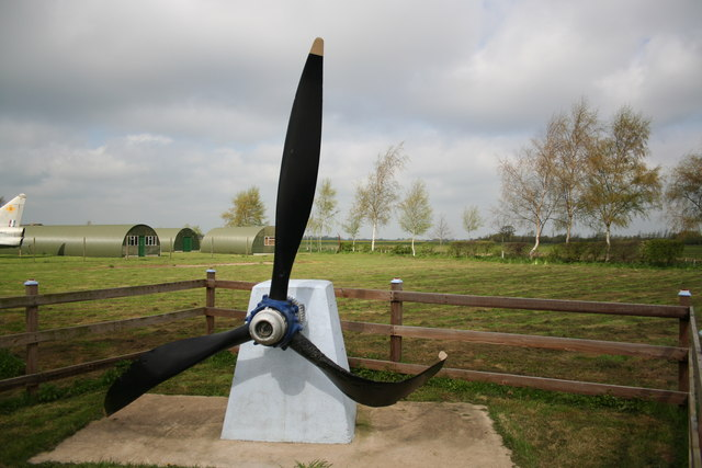 Lancaster Propeller. This Avro Lancaster propeller recovered from the Wash, is dedicated to the Royal and allied air forces who have served at RAF Woodhall since 1942 and greets visitors to Thorpe Camp visitor centre